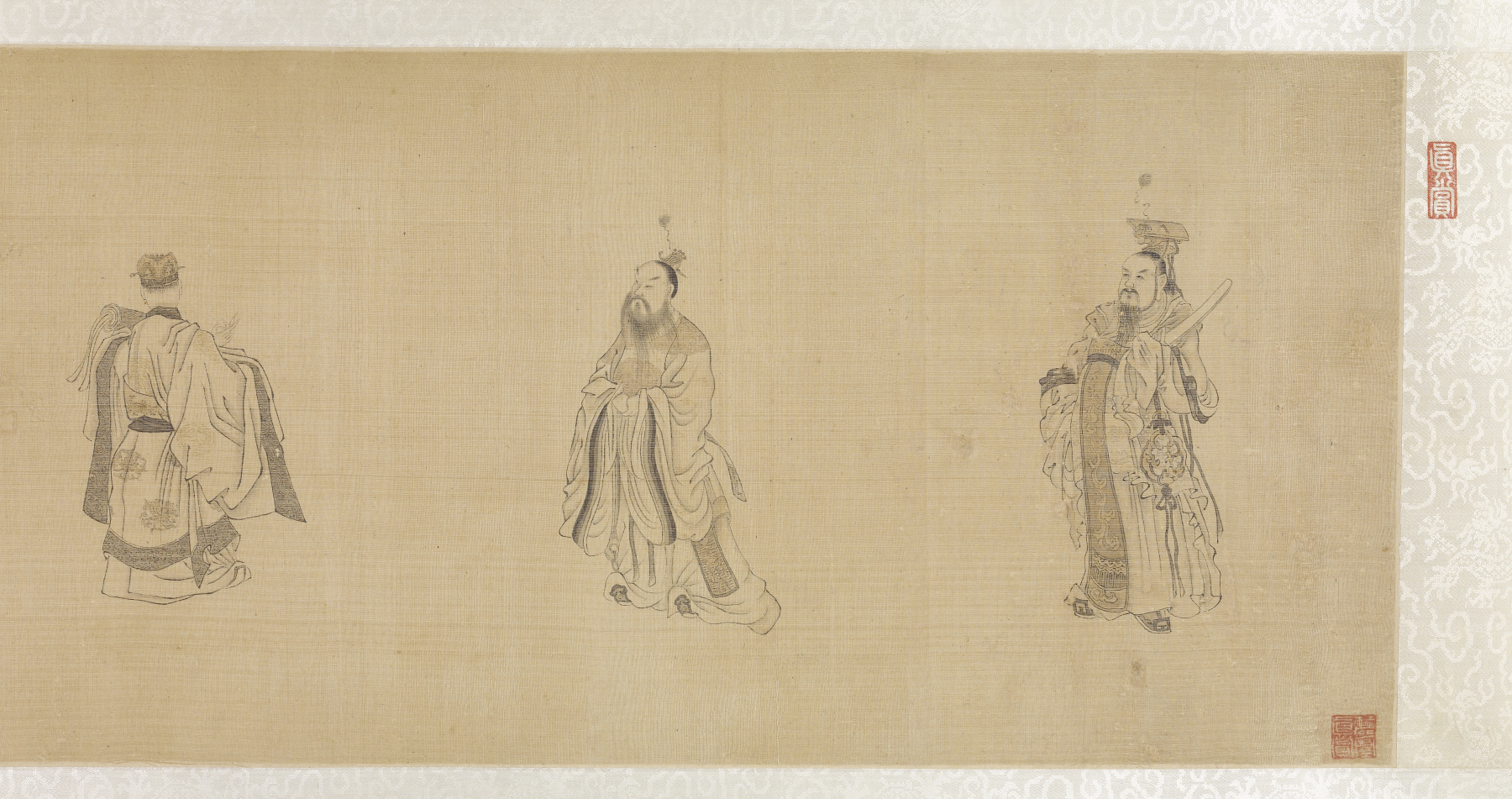 In 1669, a book was published depicting the twenty-four loyal ministers of the second emperor of the Tang [T'ang] Dynasty (reigned 627-49)-the men who helped the emperor consolidate power. The year 1669 was one in which imperial ministers were facing the challenge of bringing order throughout the empire on behalf of Kangxi [K'ang-hsi], second emperor of the Qing [Ch'ing] Dynasty (reigned 1662-1722). Historical records state that portraits of the Tang [T'ang] ministers had been painted on the walls of the Gallery that traverses Smoky Clouds (Lingyengo [Ling-yen-ko]), a building on the palace grounds. This handscroll, by an unknown but immensely skilled painter, reproduces almost exactly the imaginary portraits in the book, which were designed by Lin Yuan, an artist who went to work at the imperial court in the 1670s. (1) Changsun Wuji [Ch'ang-sun Wu-chi] Minister of Education (2) Li Xiaogong [Li Hsiao-kung] Minister of Works (3) Du Ruhui [Tu Ju-hui] Minister of Works Commanader of the Heir Designate (4) Wei Zheng [Wei Cheng] Minister of Works Grand Preceptor of the Heir Designate (5) Fang Xuanling [Fang Hsüan-ling] Minister of Works Duke of the Kingdom of Liang (6) Gao Jian [Kao Chien] Minister of Education (7) Weichi Jingde [Wei-ch'ih Ching-te] Commander Unequaled in Honor (8) Li Jing [Li Ching] Specially Advanced Duke of the Kingdom of Wei (9) Xiao Yu [Hsiao Yu] Specially Advanced Duke of the Kingdom of Sung (10) Yuan Jixuan [Yüan Chi-hsüan] Grand Bulwark General of the State